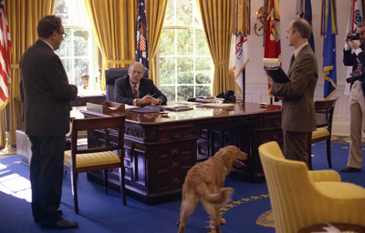 President Ford confers with Secretary of State Henry Kissinger and National Security Advisor Brent Scowcroft in the Oval Office, October 8, 1974.